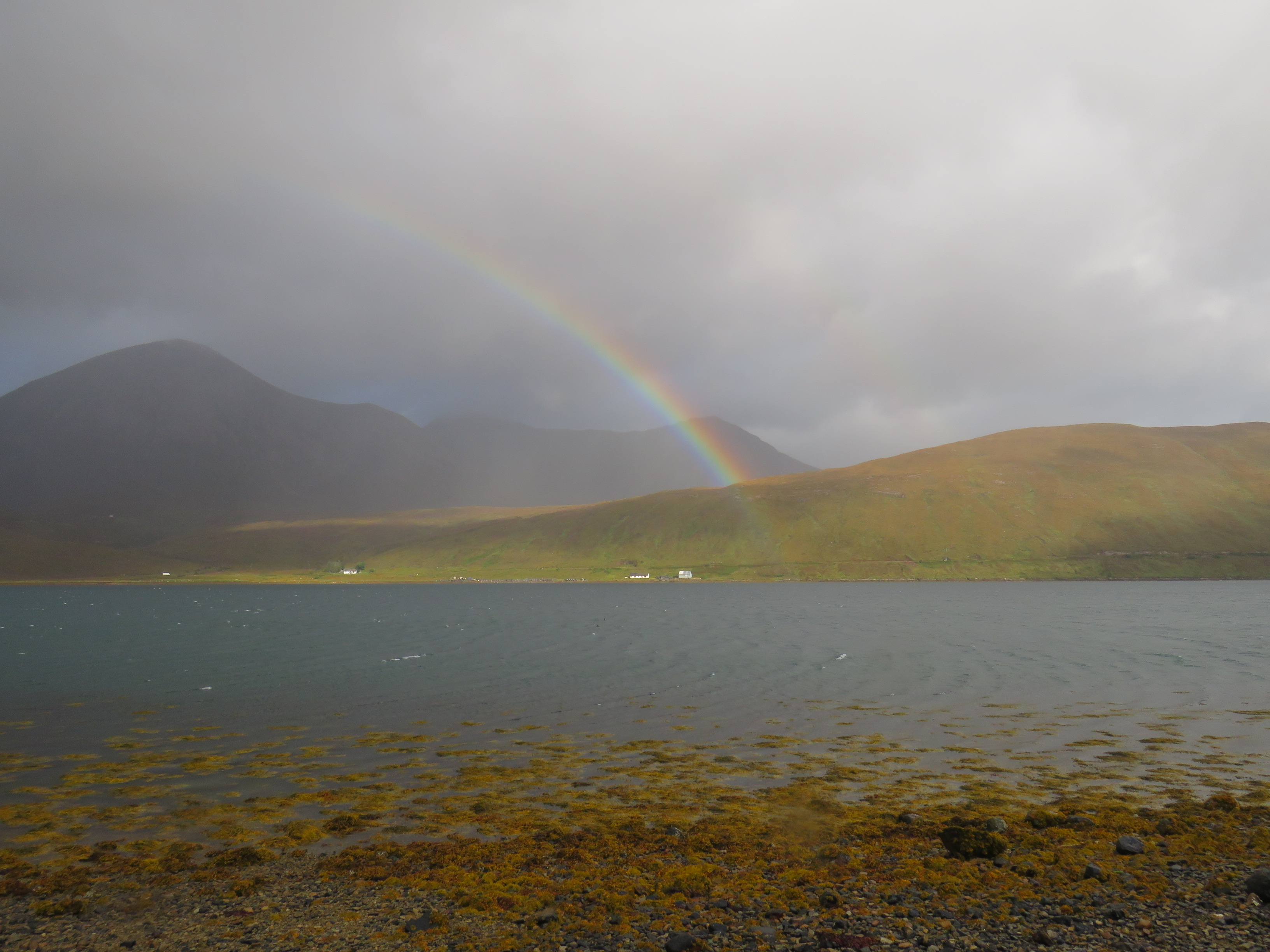 Loch Ainort, Skye, Outer Hebrides, Scotland